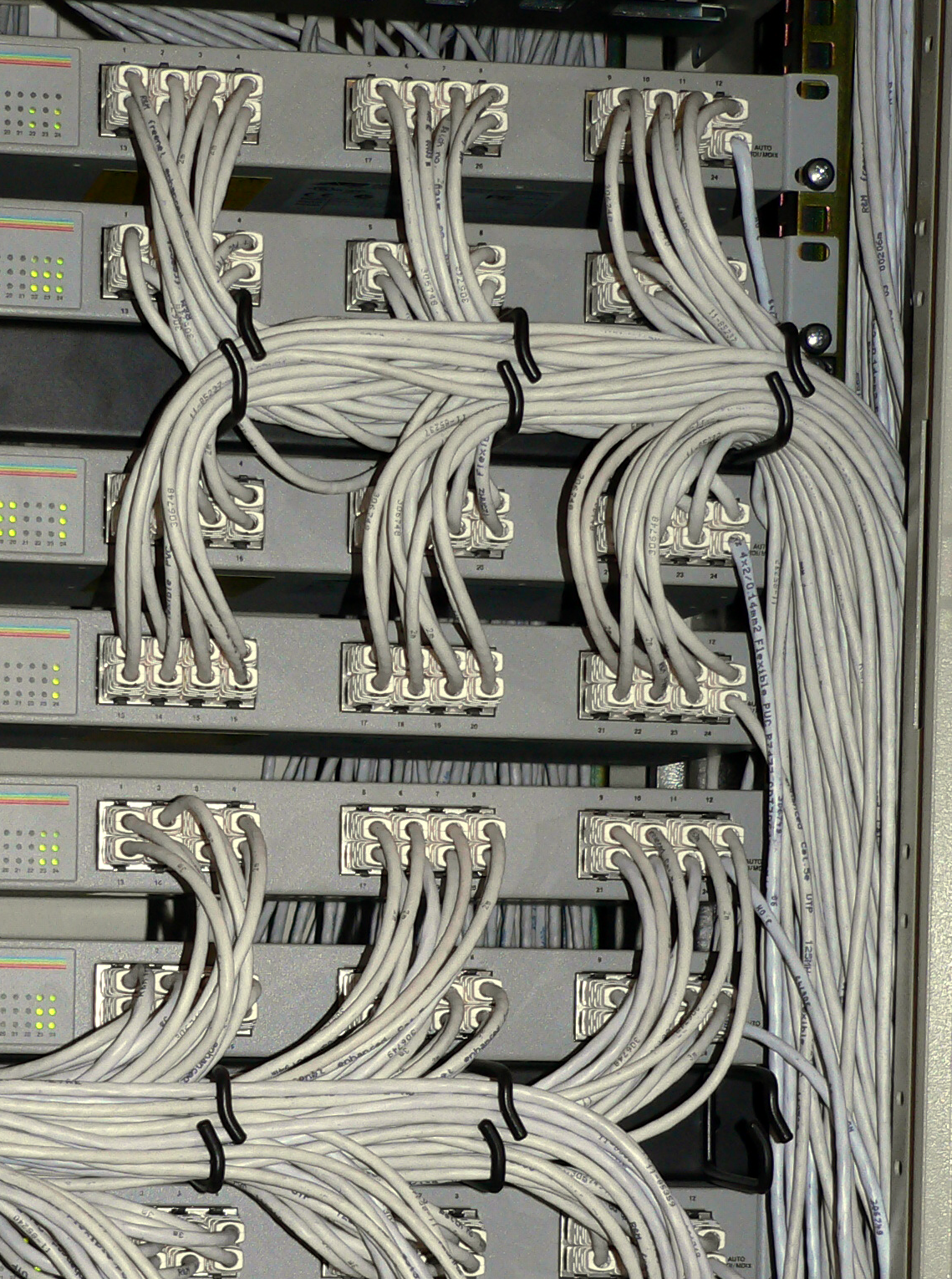 Allied Telesyn switches in rack